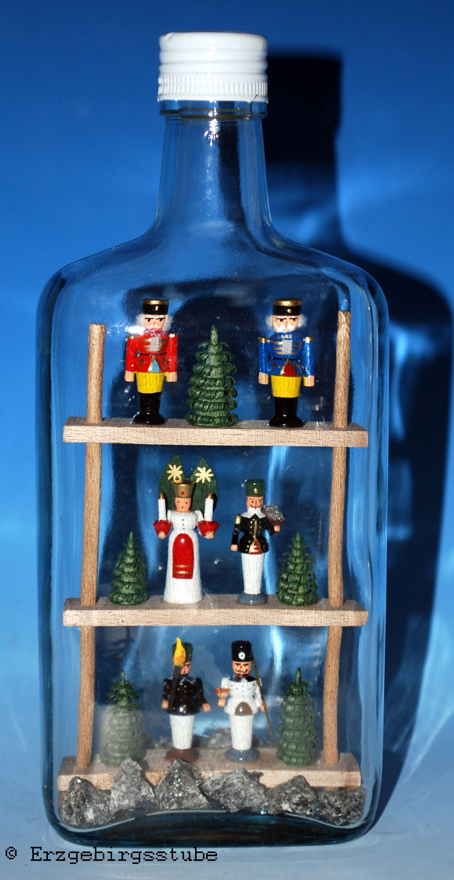 Figures from Erzgebirge/Germany in a bottle.